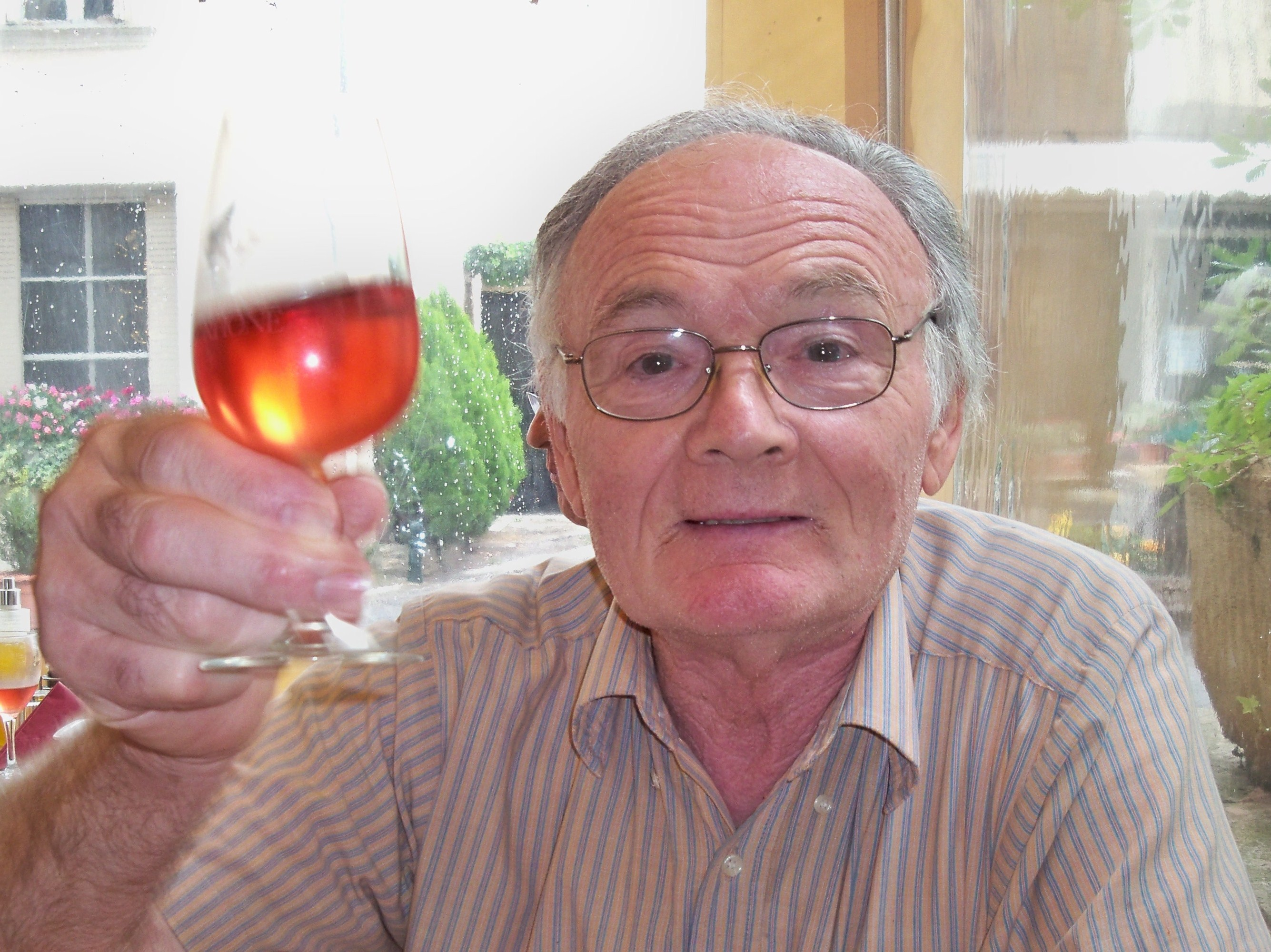 wine tastin